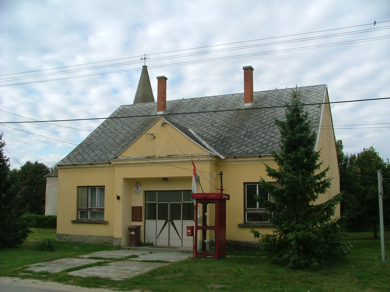 Village hall in Mérges